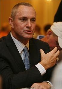 UNC head football coach Butch Davis at the 2007 ACC Football kickoff. Picture by sports photographer Gene Galin for the Butch Davis article.